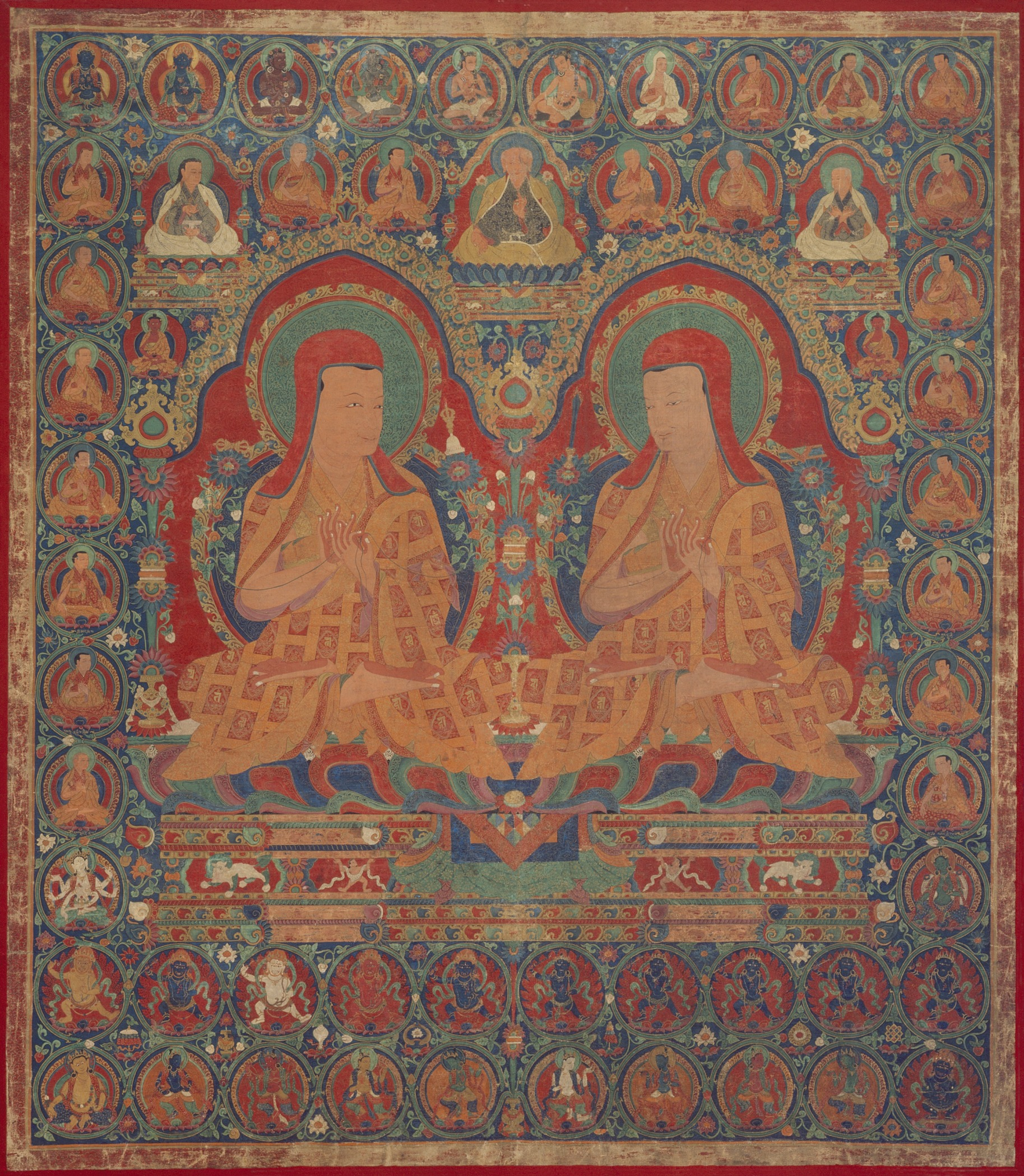 Central Tibet, Ngor Monastery, 1475-1500 Paintings Mineral pigments and gold on cotton cloth From the Nasli and Alice Heeramaneck Collection, purchased with funds provided by the Jane and Justin Dart Foundation (M.81.90.1) South and Southeast Asian Art